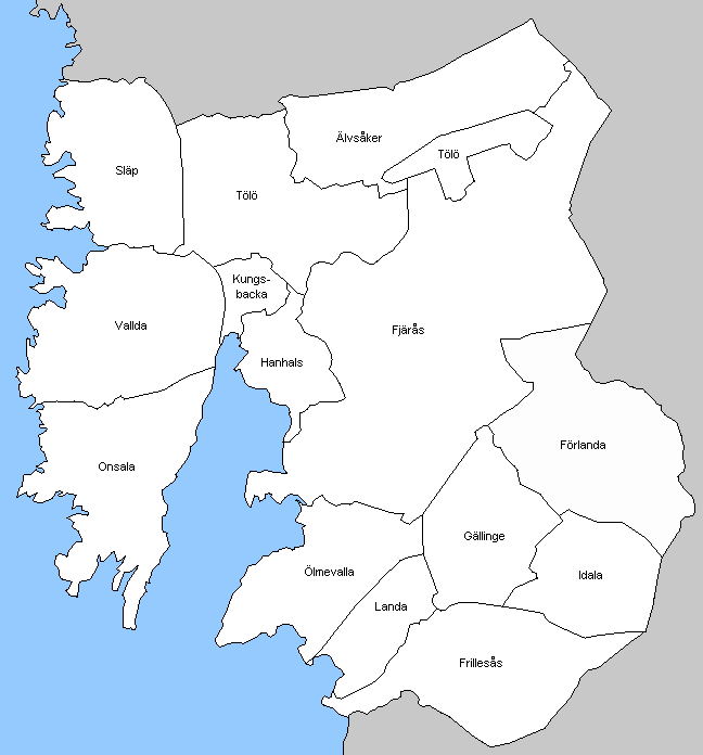 Parishes in Kungsbacka municipality